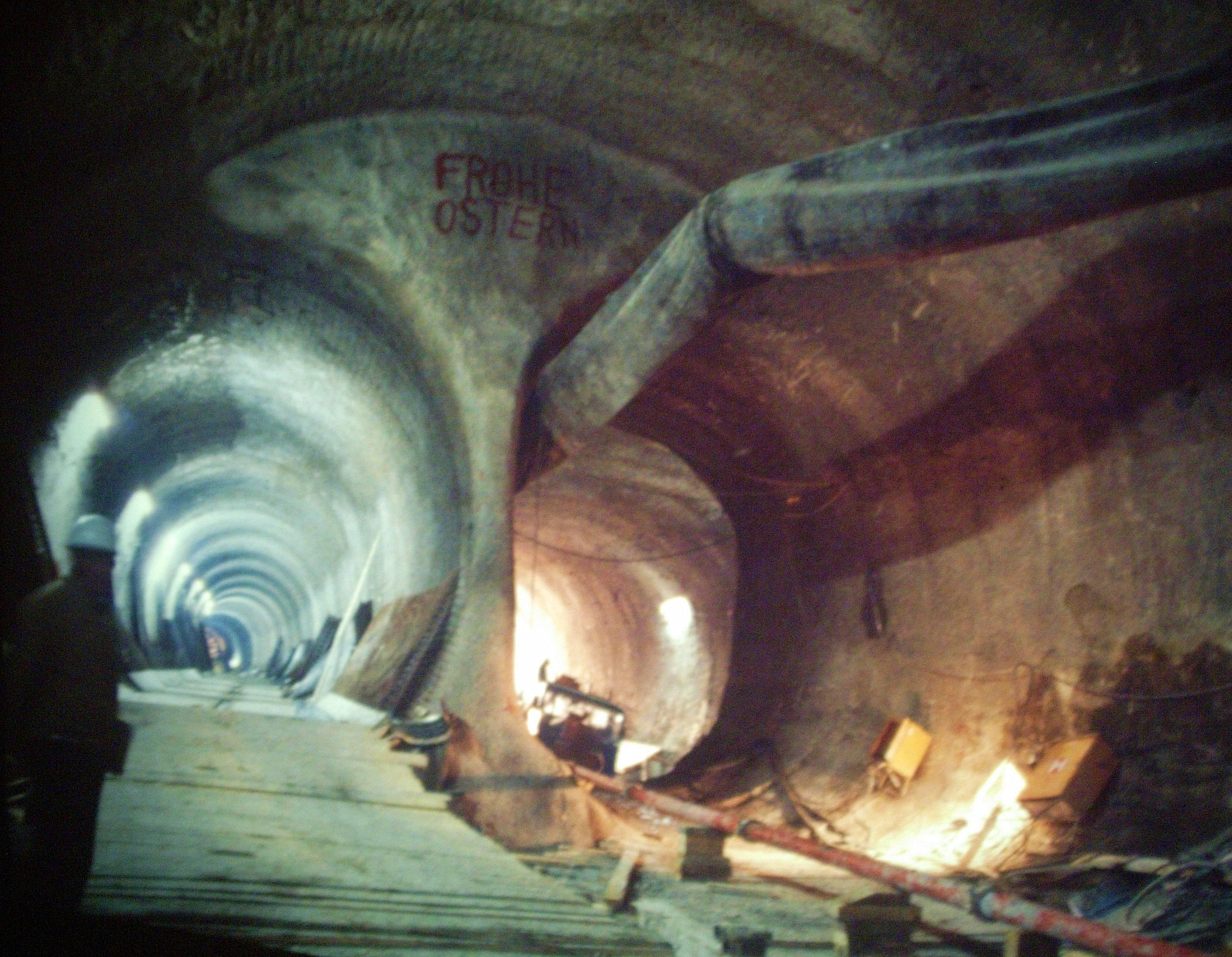 tunnel of line 4/5 between "Lehel" and "Max-Weber-Platz" under construction. The "happy easter" is an authentic graffiti of the workers ;-)